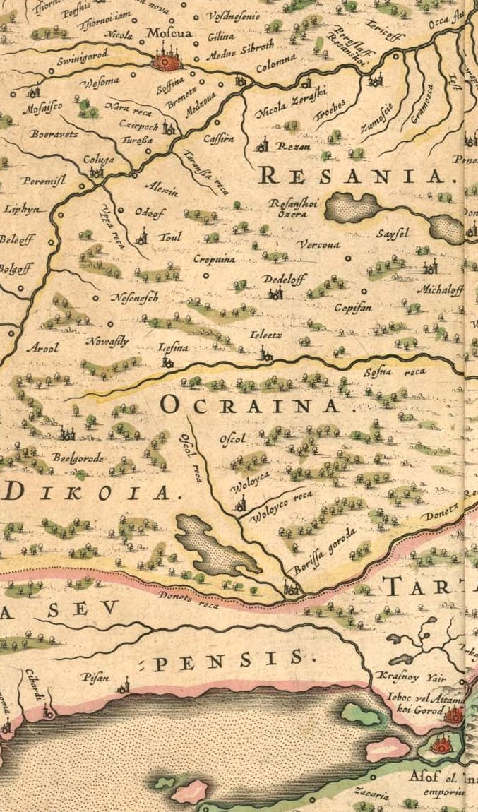 Title: The southern part of Russia, a.k.a. Muscovyfrom"Theatrum Orbis Terrarum, sive Atlas Novus in quo Tabulæ et Descriptiones Omnium Regionum, Editæ a Guiljel et Ioanne Blaeu"(Theater of the World, or a New Atlas of Maps and Representations of All Regions, Edited by Willem and Joan Blaeu), 1645. Among numerous topographical mistakes there is a canal (Fossa Kamouz, non-existent at the time) between Don (Tanais flux) and Volga (Wolga olim Rha flux) near right side of the map at latitude what the author thought to be 51° N.